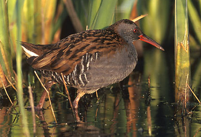 Rallus aquaticus, Water Rail